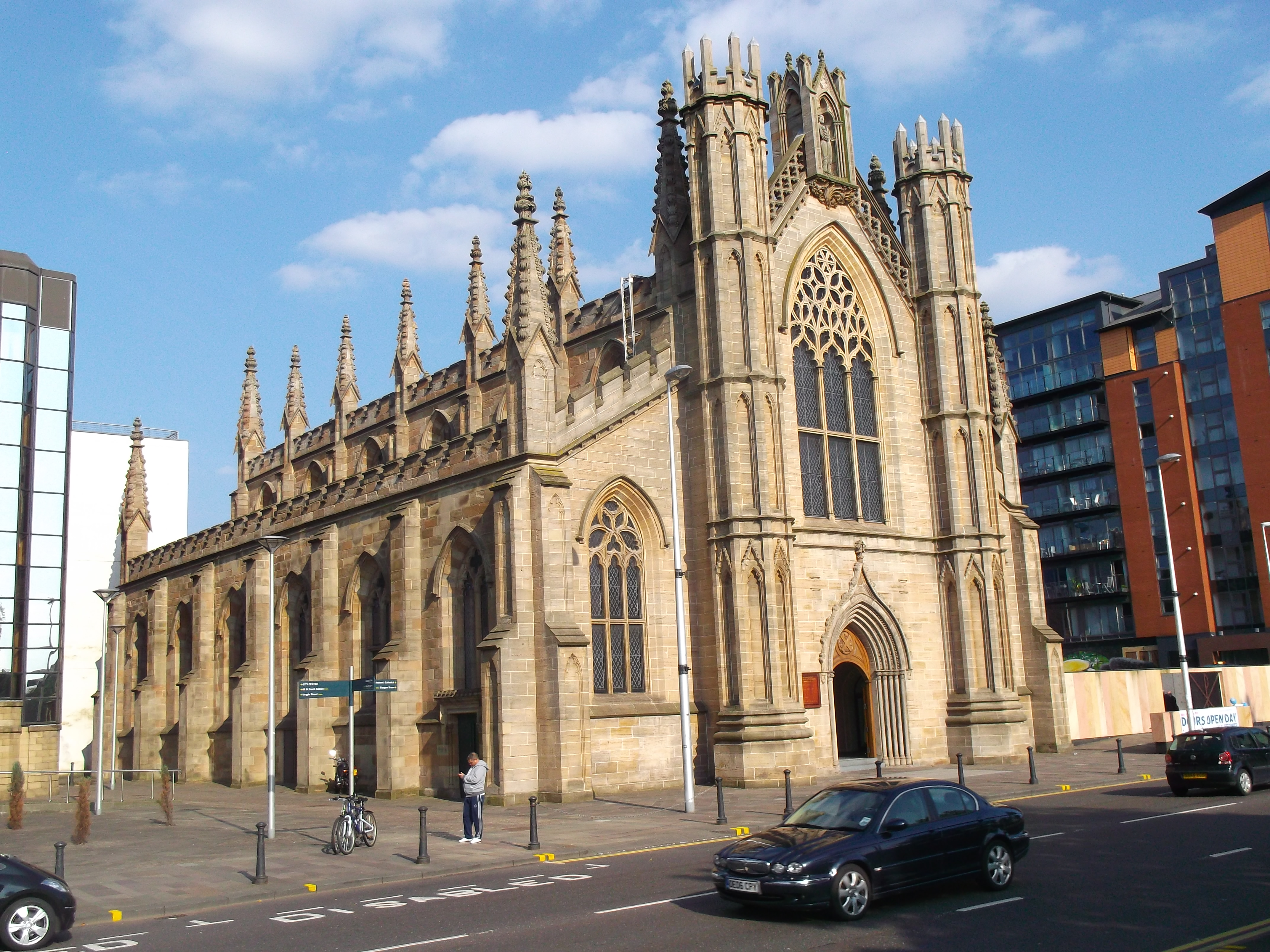 St Andrew's Roman Catholic Cathedral, Glasgow, seen from across Clyde Street. Wikidata has entry Q2002811 with data related to this building.